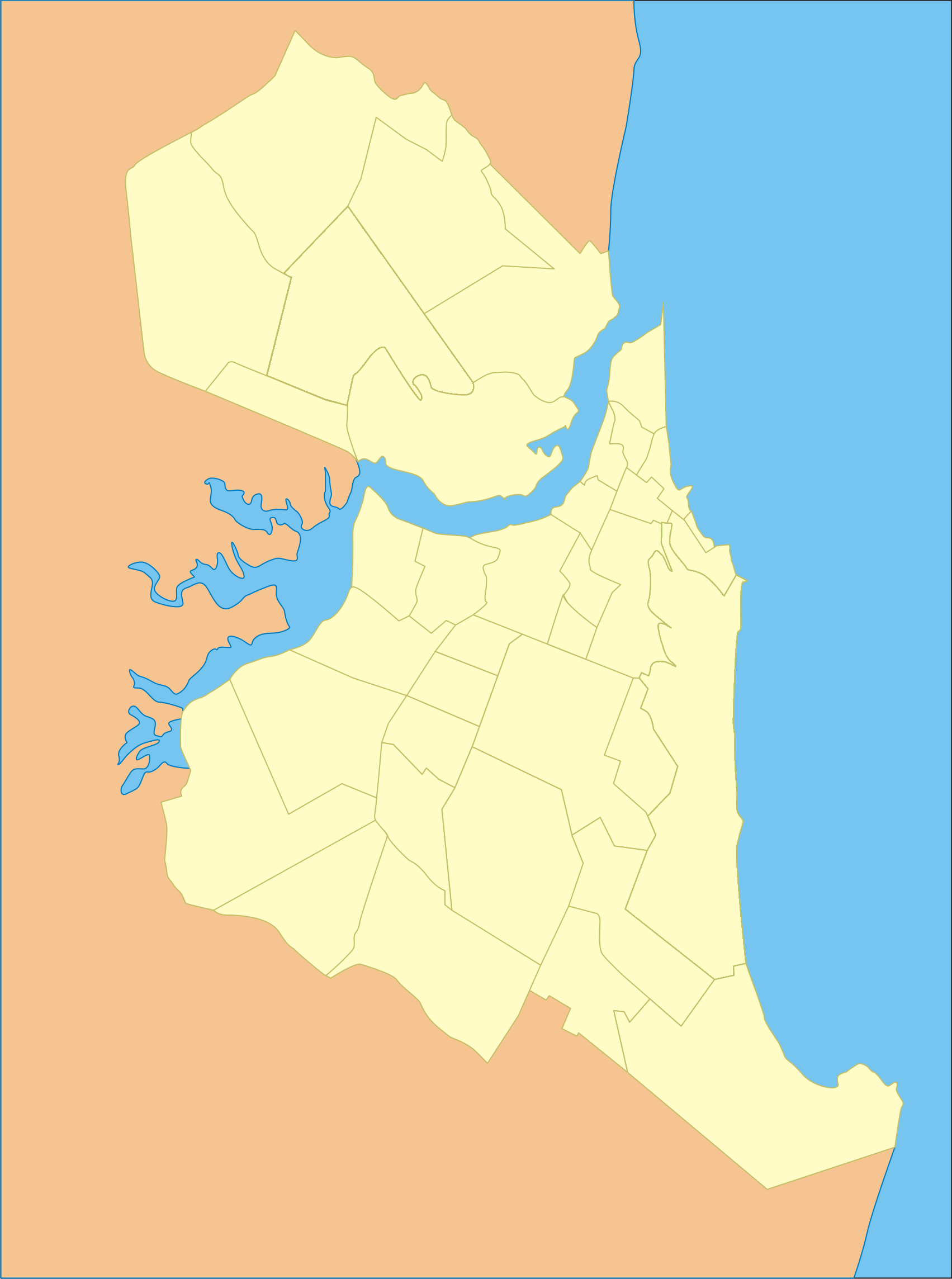 Map of Natal (Rio Grande do Norte), Brasil with neighborhoods.